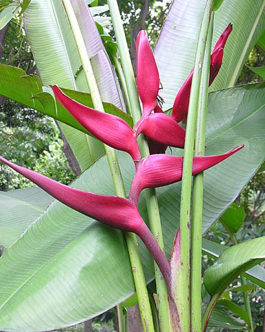 Dick Culbert: Switching farther north, Heliconia bourgaeana originated from Mexico to Nicaragua, and is here exhibited in the former.